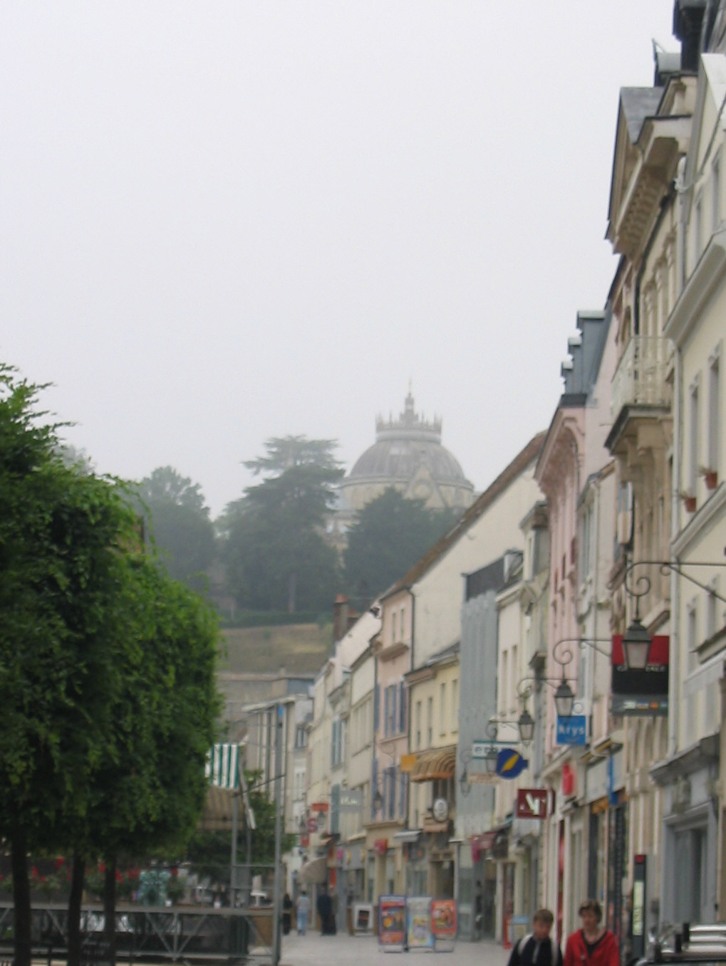 The Grand Rue - Maurice Violette in Dreux (Eure and Loir). In the background, the Chapel Saint-Louis